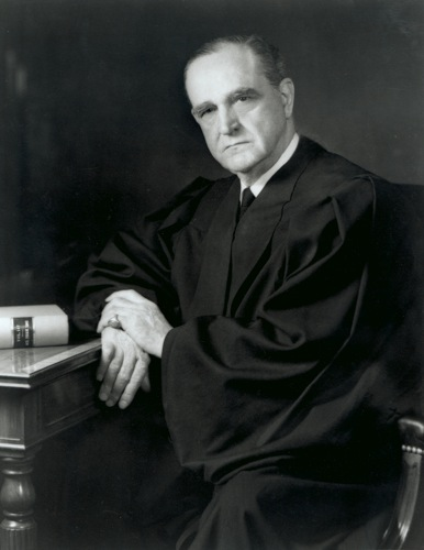 Photo of Supreme Court Justice Sherman Minton